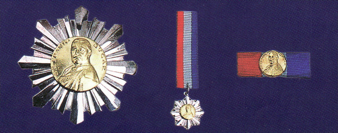 Badge and Ribbon of Order of Danica Hrvatska with the face of Franjo Bučar